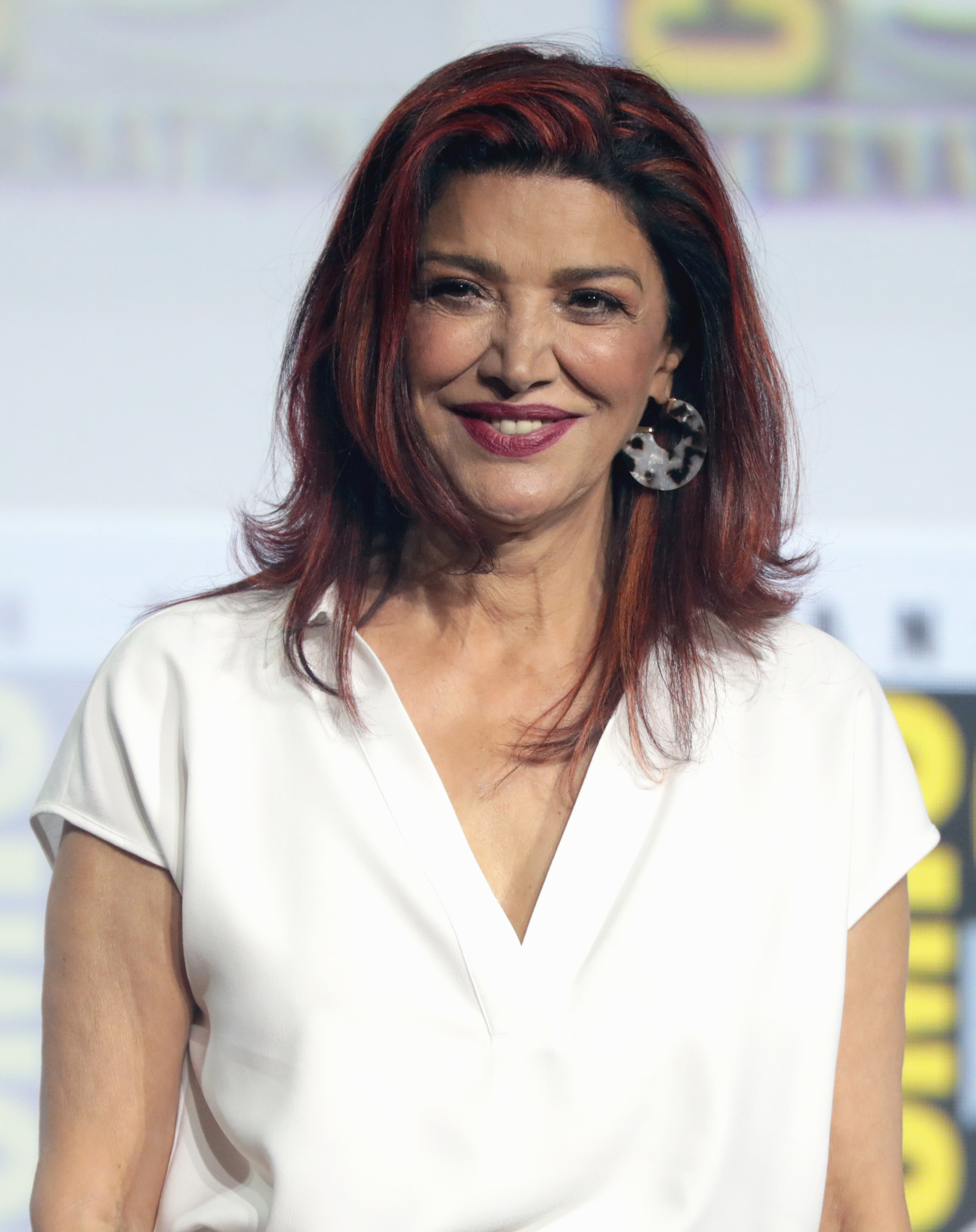 Shohreh Aghdashloo speaking at the 2019 San Diego Comic-Con International in San Diego, California.